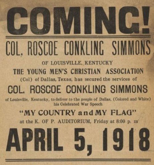 handbill for an appearance by Roscoe Simmons